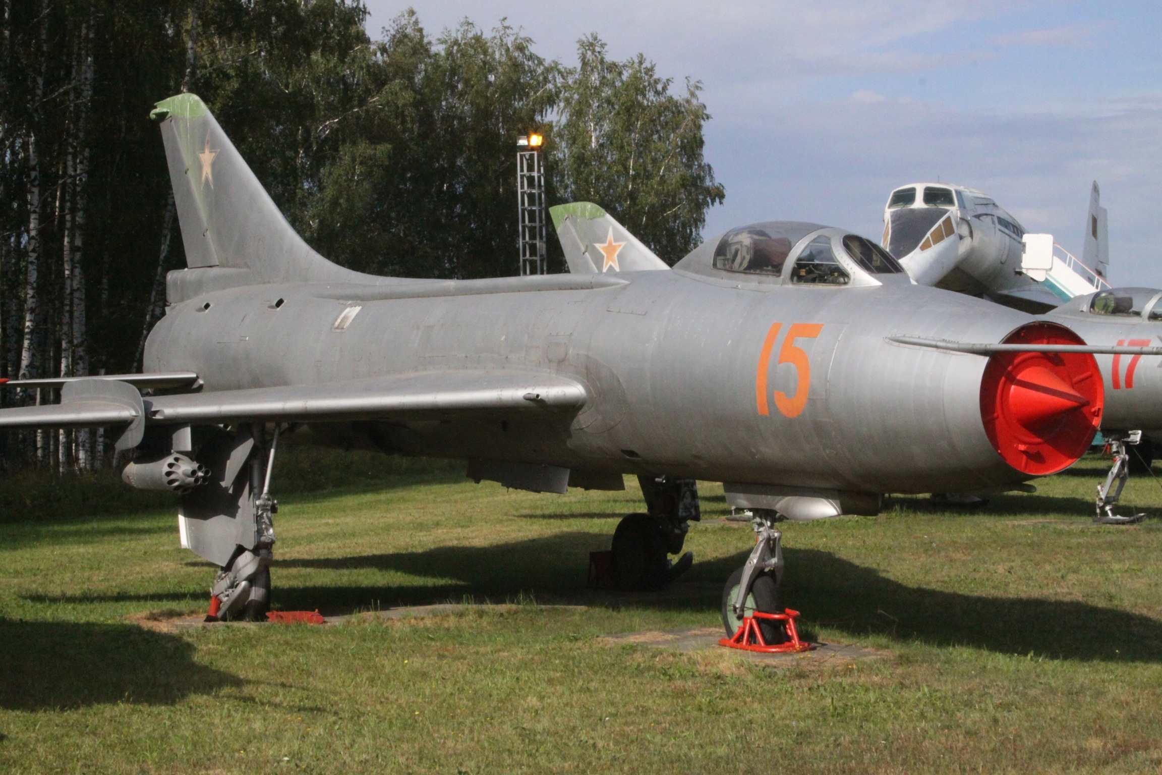 At Monino Museum